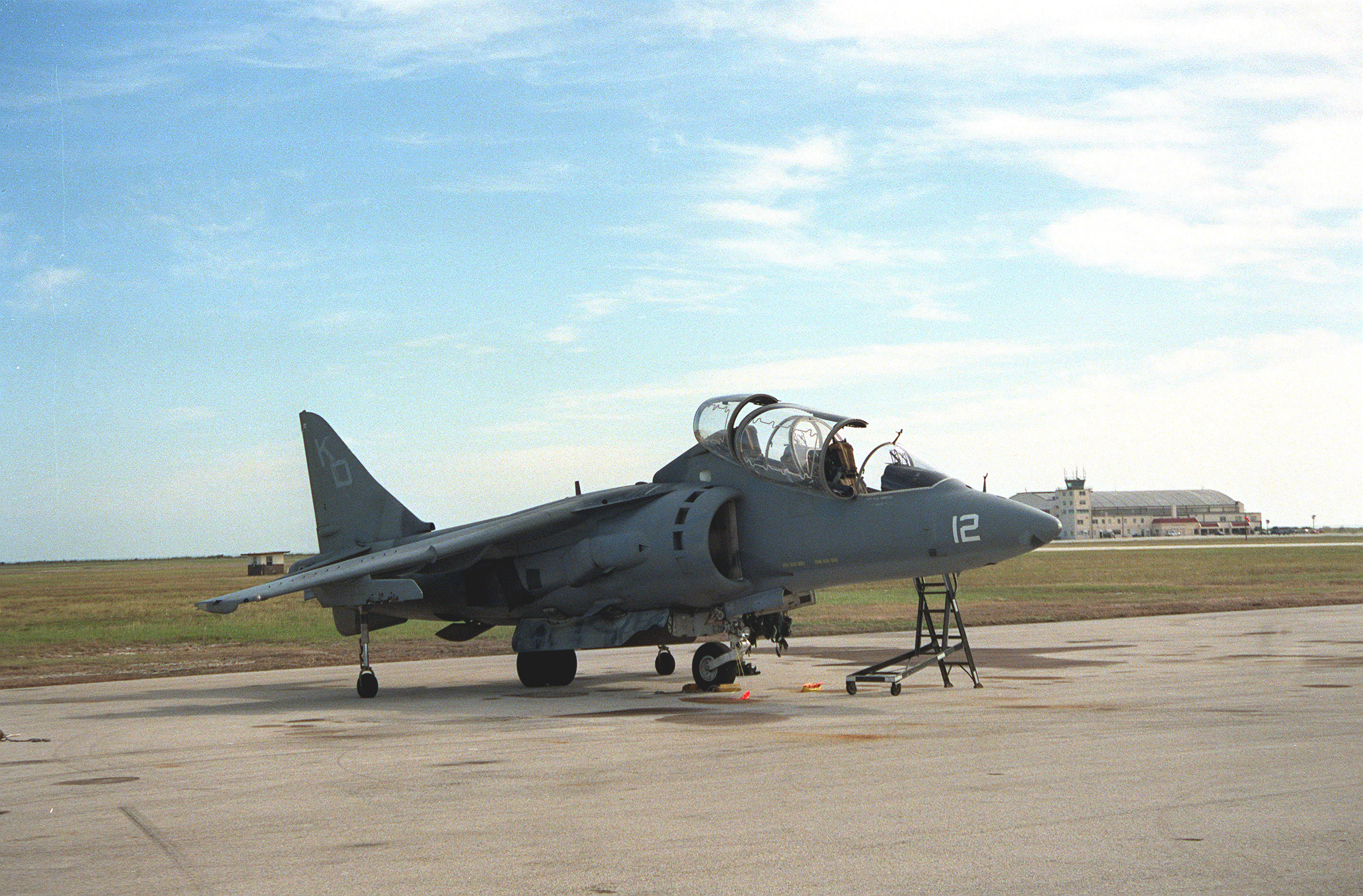 A right front view of a Marine Corps TAV-8B Harrier vertical take off landing (VSTOL) trainer aircraft being serviced on the tarmac. Location: MCDILL AIR FORCE BASE, FLORIDA (FL) UNITED STATES OF AMERICA (USA)